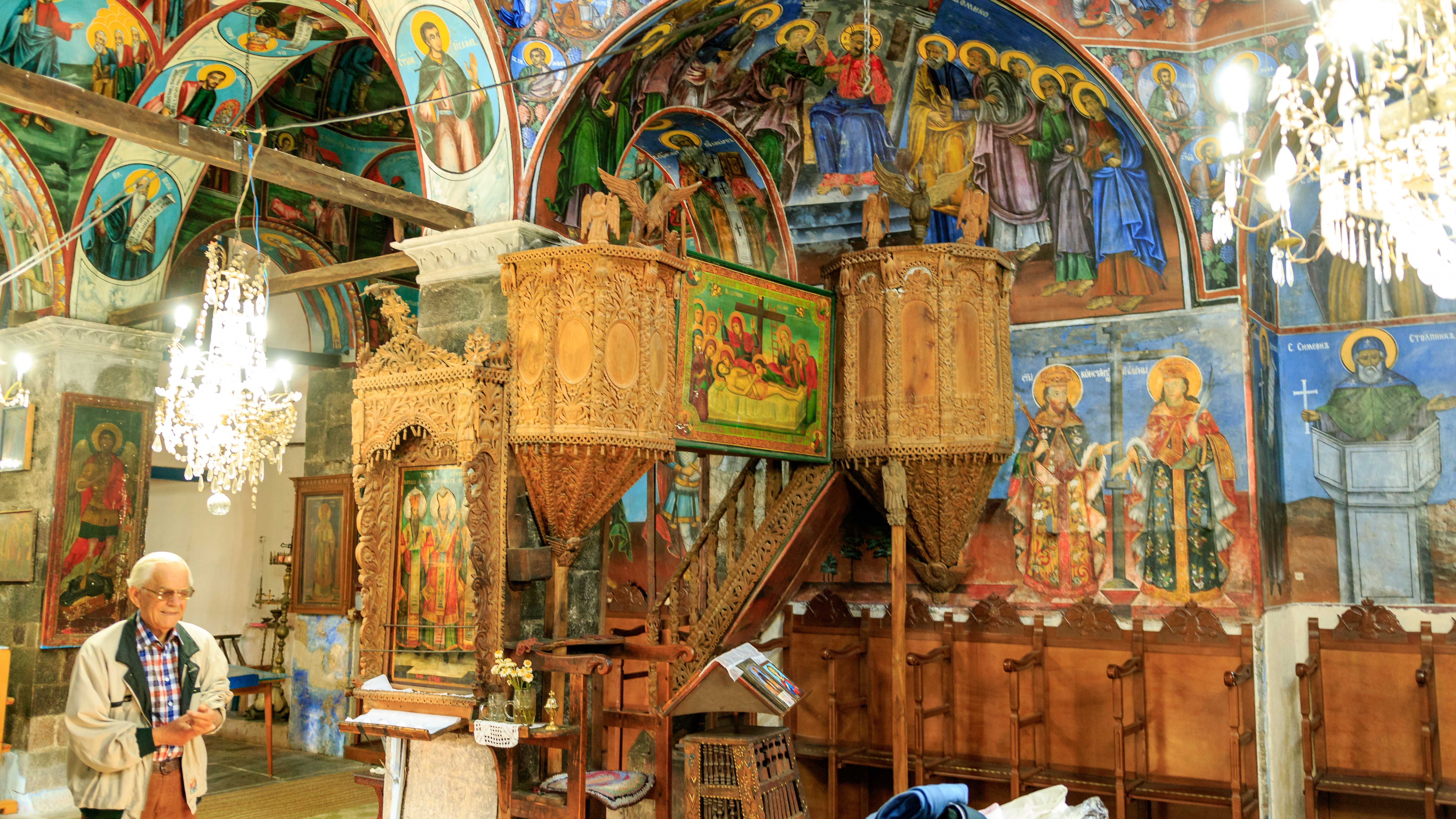 Interior of the St. George's Church in the village Lazaropole